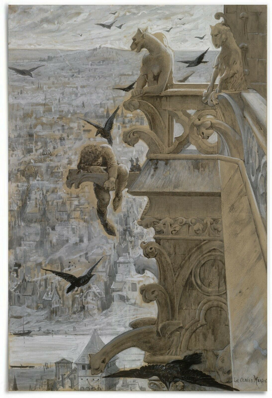 Work by Luc-Olivier Merson